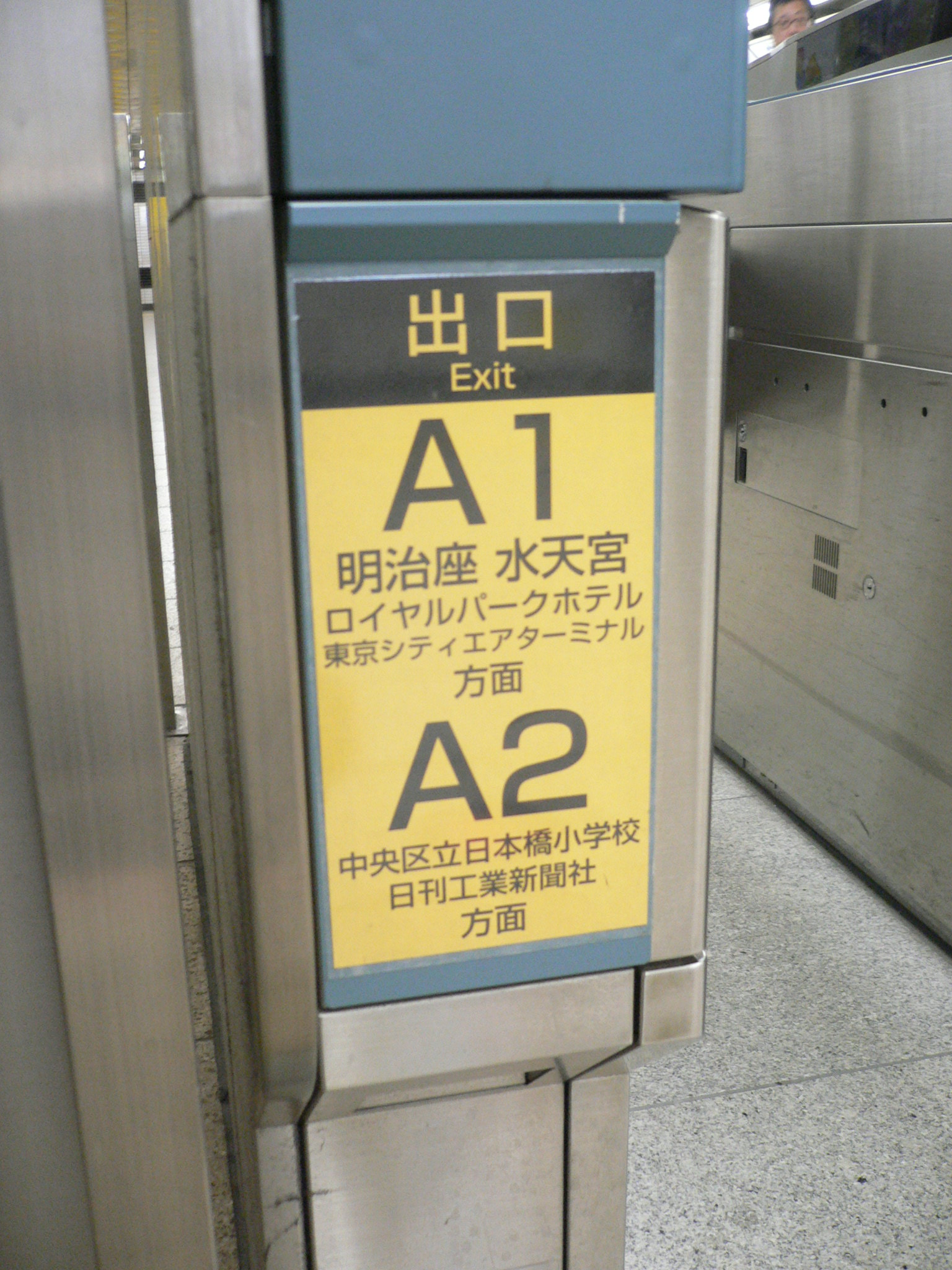 Ningyōchō Station (人形町駅), Chuō W, Tokyo M.